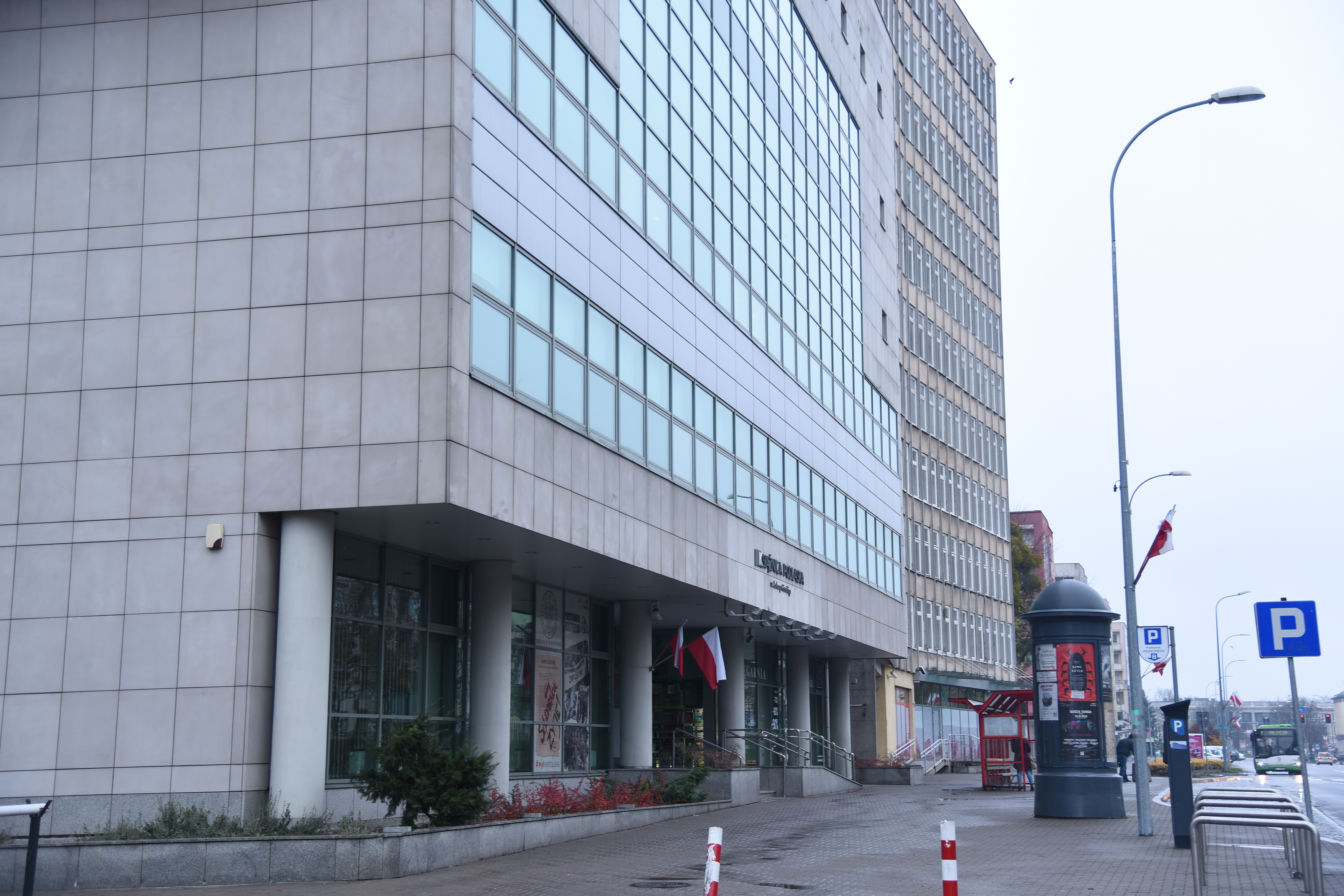 Książnica Podlaska im. Łukasza Górnickiego w Białymstoku, w budynku siedziby przy ul. Marii Skłodowskiej –Curie 14 A